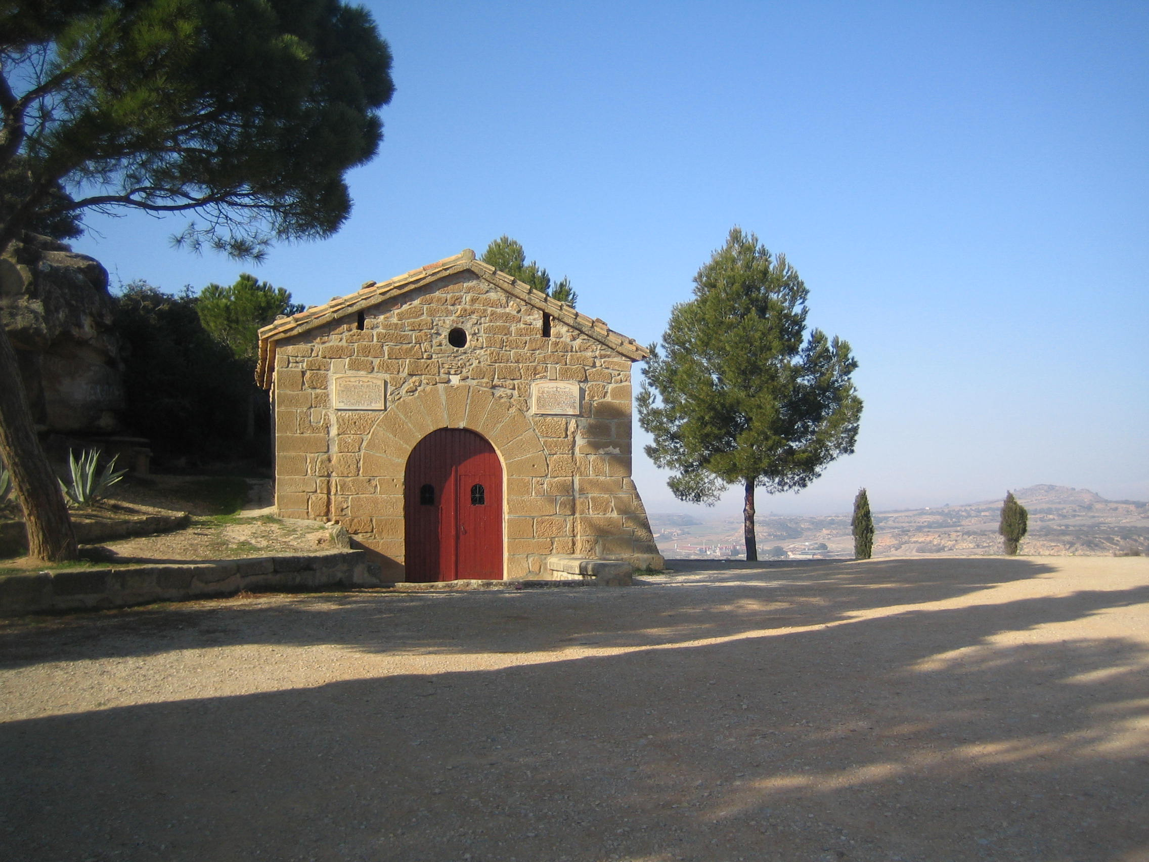 A view of old hermitage of Our Lady of Pueyos